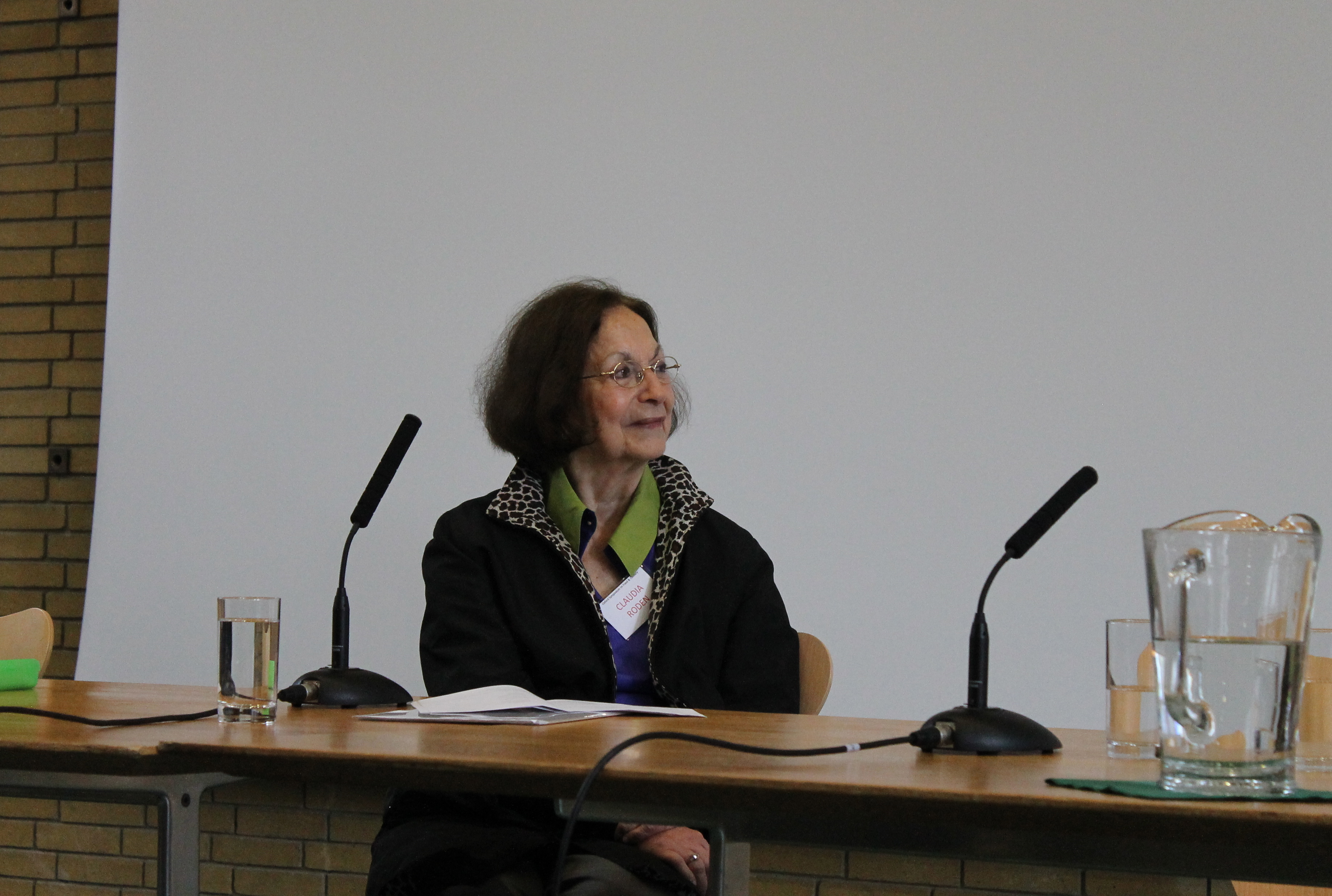 Cookbook author Claudia Roden at the Oxford Symposium on Food and Cookery, 2012.